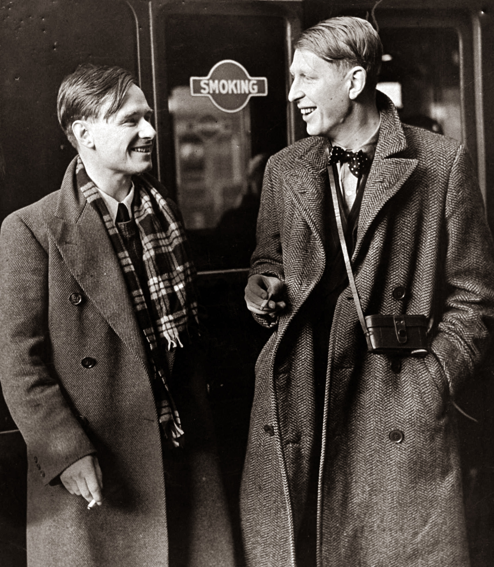 Daily Herald Archive at the National Media Museum. This photograph shows the poet and playwright W.H. Auden (1907-1973), pictured right, and the novelist and playwright Christopher Isherwood (1904-1986) chatting at Victoria Station, London. They were travelling to China via Paris with the intention to writing a book about China. Auden was born in England but later became an American citizen and is often regarded as one of the greatest writers of the 20th century. Christopher Isherwood was born in Manchester and, like Auden, later accepted American citizenship. He wrote extensively and had a successful career spanning nearly 40 years. Auden and Ishwerwood were school friends and often wrote together.